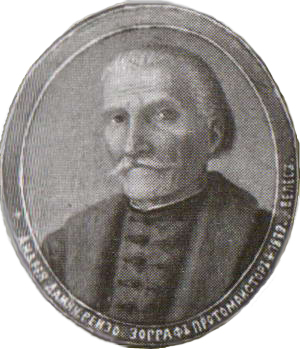 Portrait of Andrey Damyanov from Popradishte